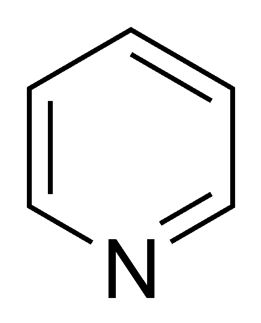 Chemical structure of pyridine, a simple aromatic ring